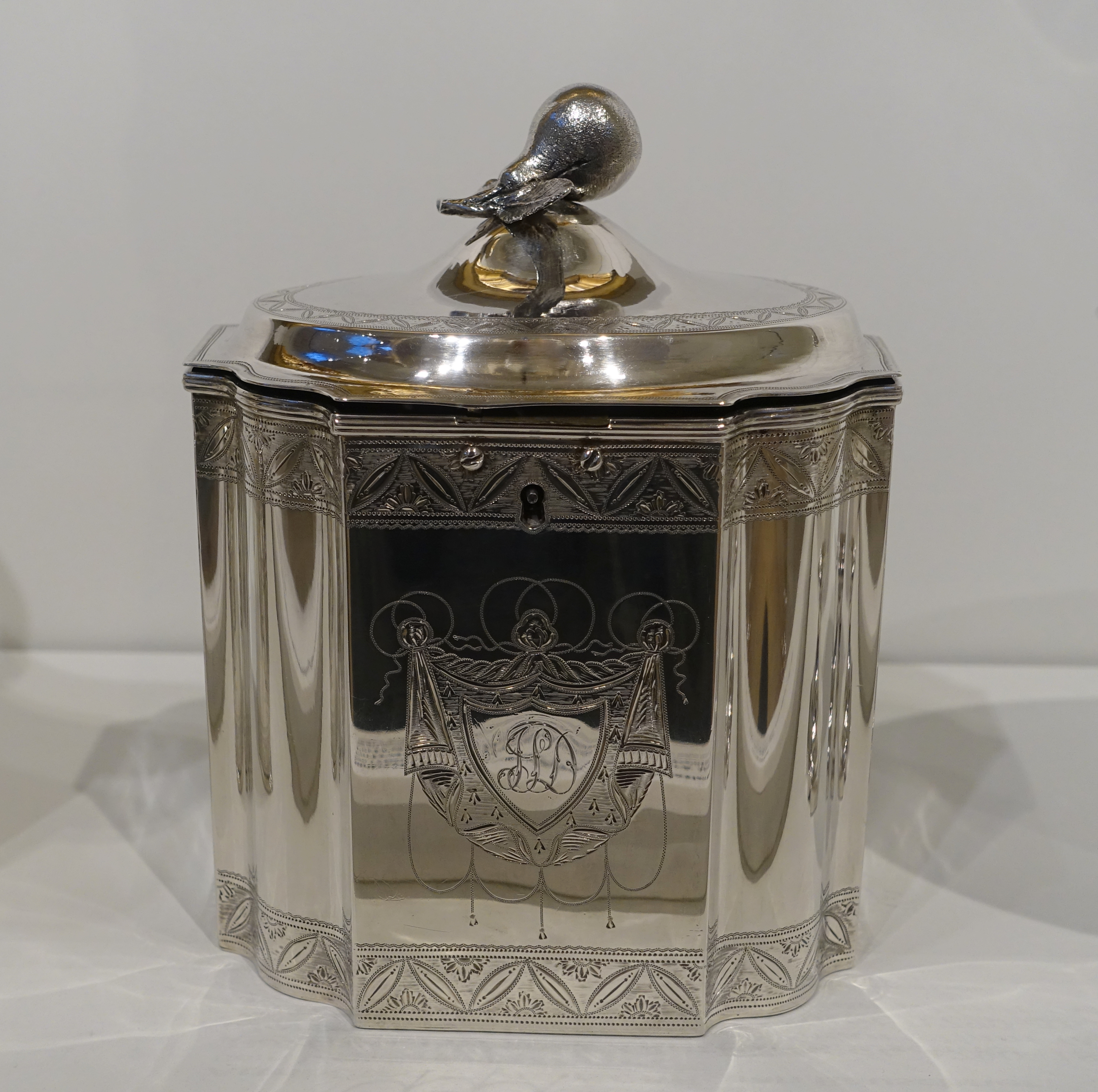 Exhibit in the Peabody Essex Museum - Salem, Massachusetts, USA.